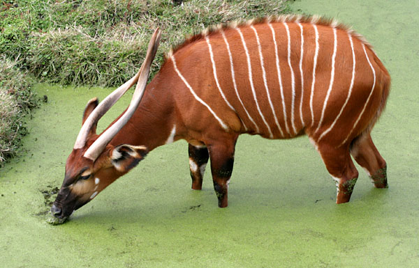 East African Bongo, Tragelaphus eurycerus isaaci. Location: Jacksonville Zoo, Jacksonville, Florida, United States. (Information on animal)